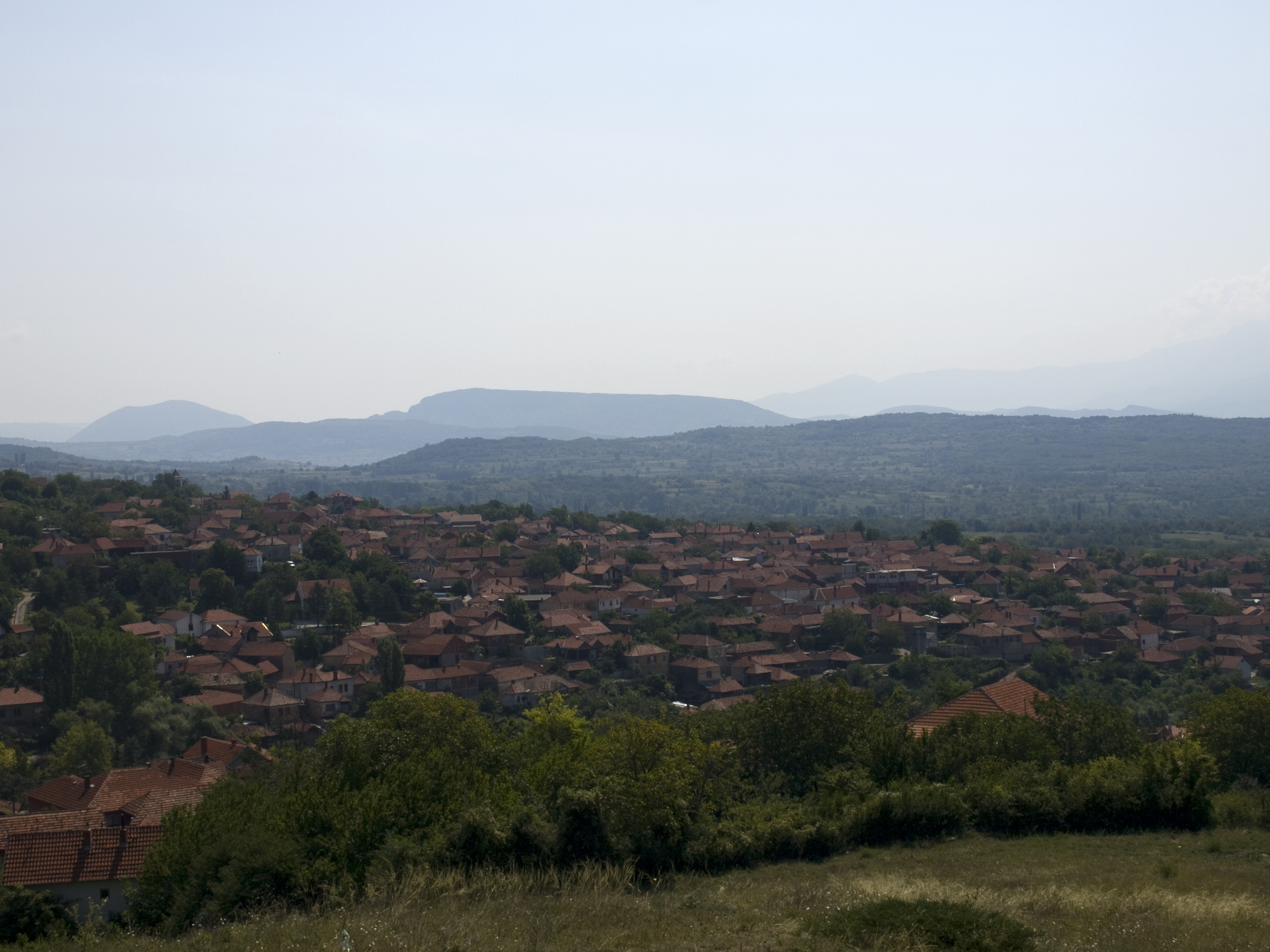 Gornji_Matejevac, view from the Latin Church